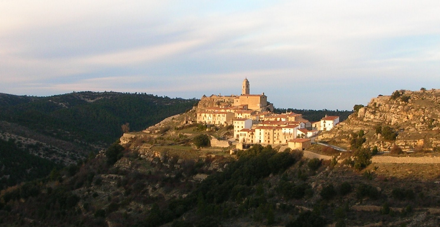 Herbeset, almost abandoned village in els Ports de Beseit